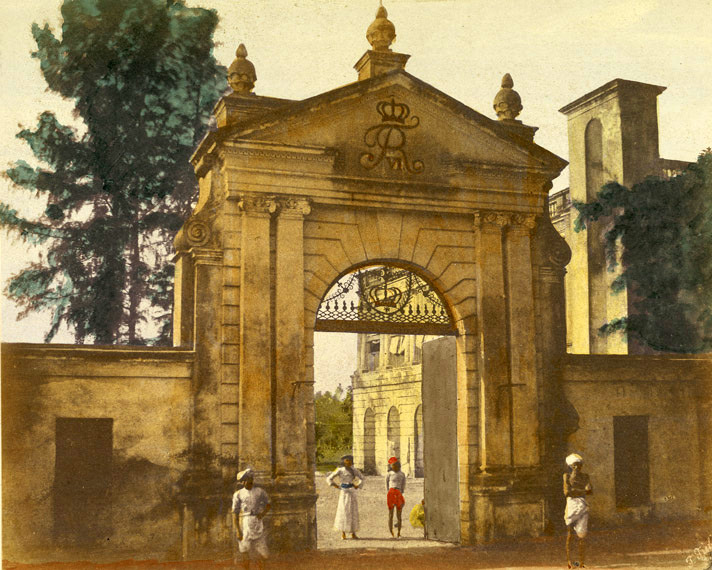 Gateway to the Danish government house at the former Danish settlement of Serampore (also called Frederiksnagore by the Danes) on the Hoogly River north of Calcutta. The pediment bears the monogram of Frederick VI (1808-1839). The Danish government sold Denmark's two Indian settlements of Serampore (in Bengal) and Tranquebar (on the Coromandel Coast) to the British East India Company in 1845, only six years before this unique photograph was taken by Frederick Fiebig. Hand-coloured salt print, 1851